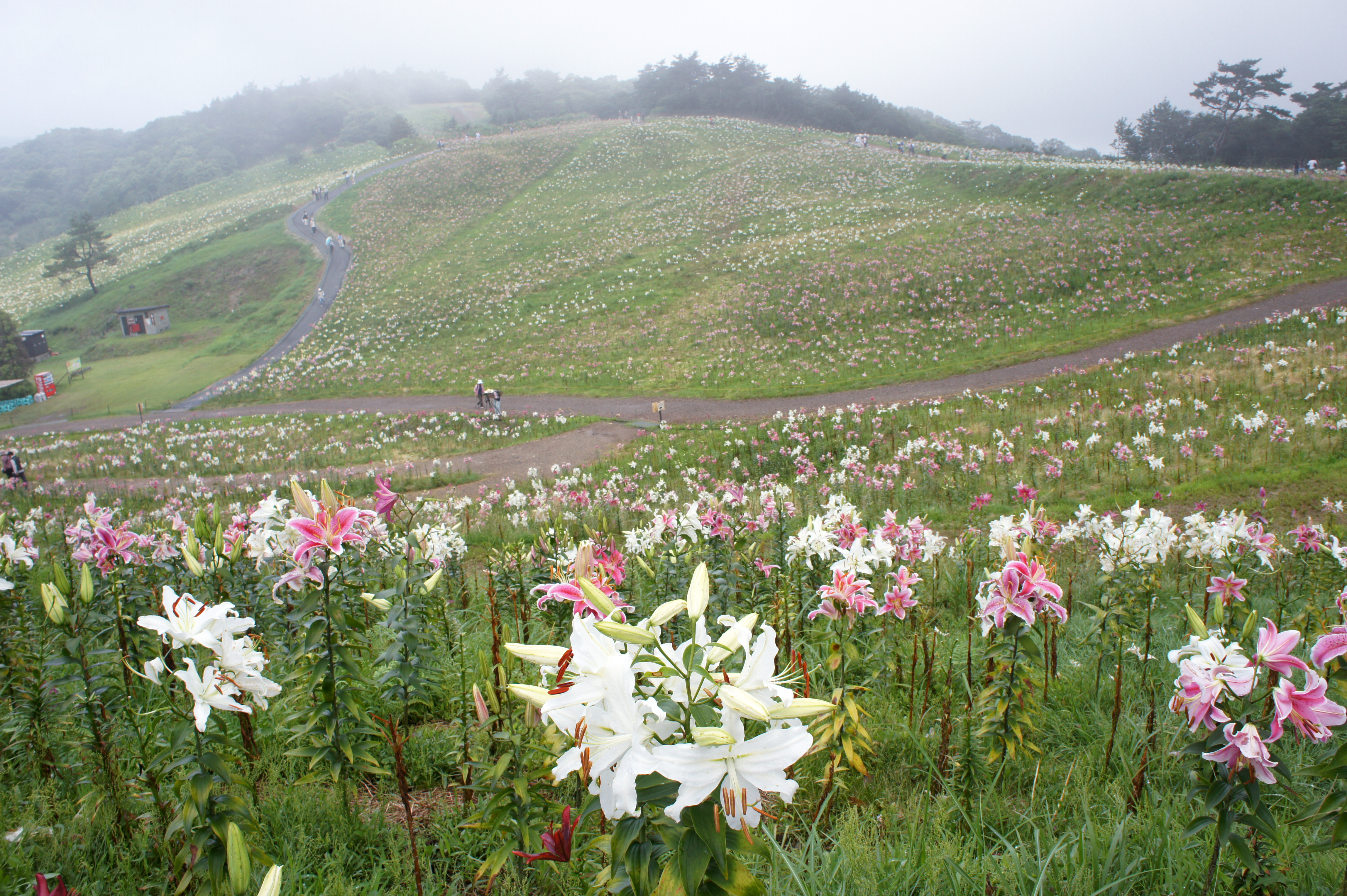 Mount Hakodate in Shiga prefecture, Japan.